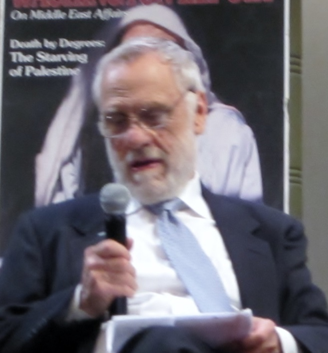 Norton Mezvinsky speaks during a forum discussion with Gilad Atzmon sponsored by the Washington Report on Middle East Affairs, March 14, 2012 in Washington, DC.